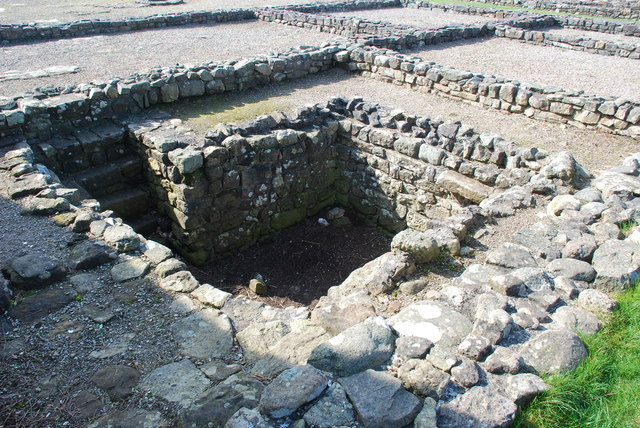 Segontium. The remains of the strongroom beneath the Principia. See 1212189